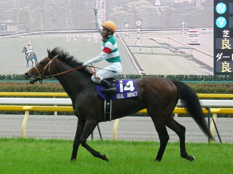 Real-Impact20110605(1)